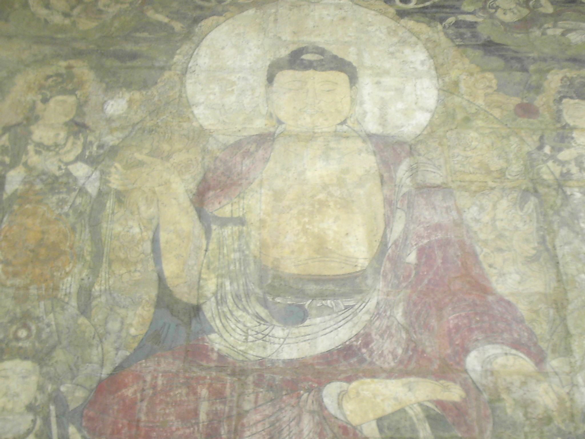 The Pure Land of Bhaisajyaguru, i.e. the Buddha of Medicine, a painting with a water-based pigment over a foundation of clay mixed with straw, dated to mid Yuan Dynasty (1271–1368) of China. The whole of this large wall mural was given to the Metropolitan Museum of Art as a gift by Arthur M. Sackler, in honor of his parents, Isaac and Sophie, in 1965.